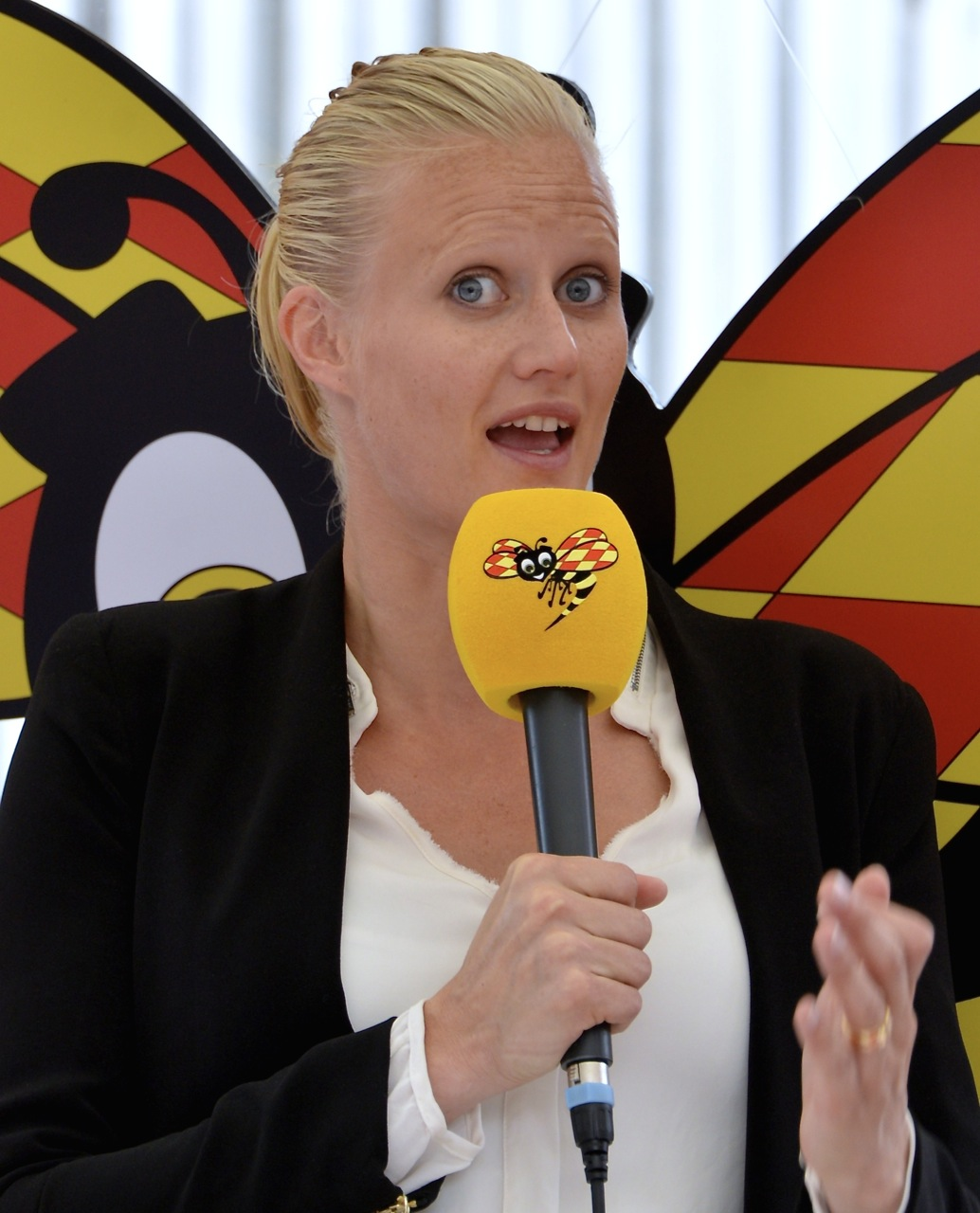 Carolina Klüft at Sergel Square during the Swedish election campaign in September 2014.